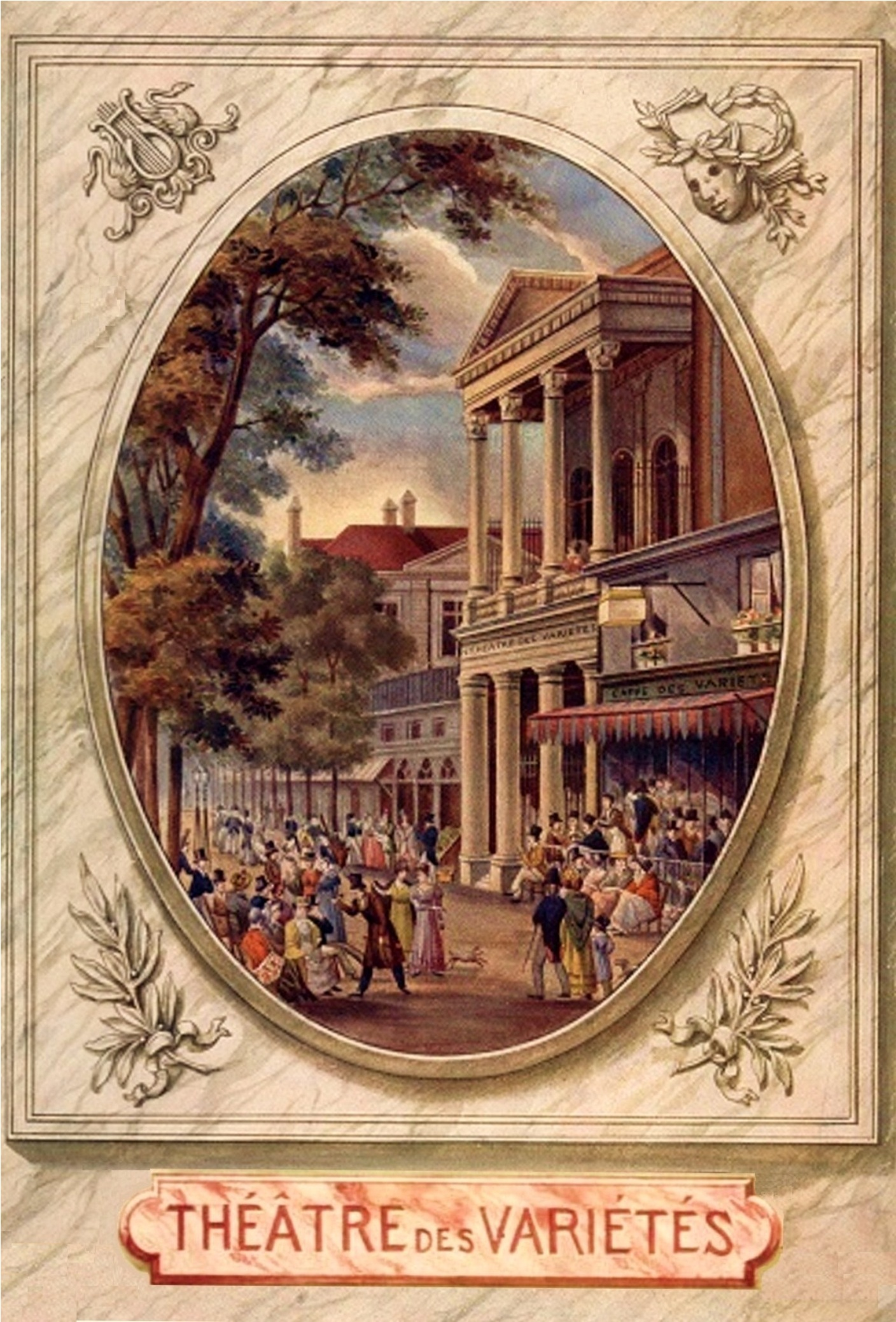 Lithograph first quarter of the 19th century. Program of the Théâtre des Variétés for La Vie Parisienne, Paris, 1911. This opera by Jacques Offenbach was the subject of four performances at the Théâtre des Variétés in 1892, 1896, 1904 and 1911.